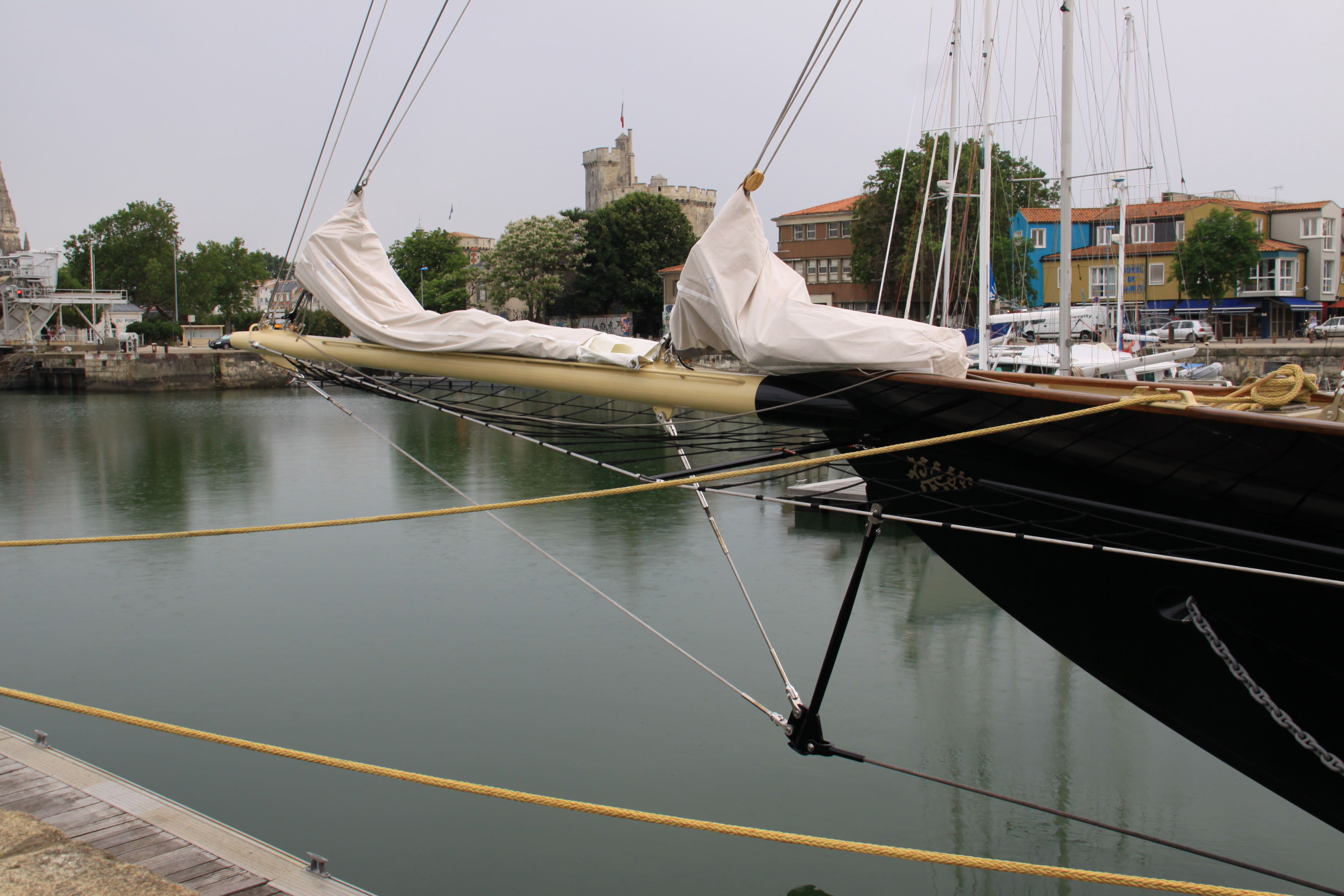 La martingale et la civadière de la goélette Atlantic lancée en 2008. Ce bateau est la réplique de la géolette Atlantic de 1903. Photographie prise en juillet 2010, lors de l' escale technique de la goélette Atlantic à La Rochelle où les dernières finitions ont été effectuées avant sa mise en service. La Rochelle, Charente Maritime, France.